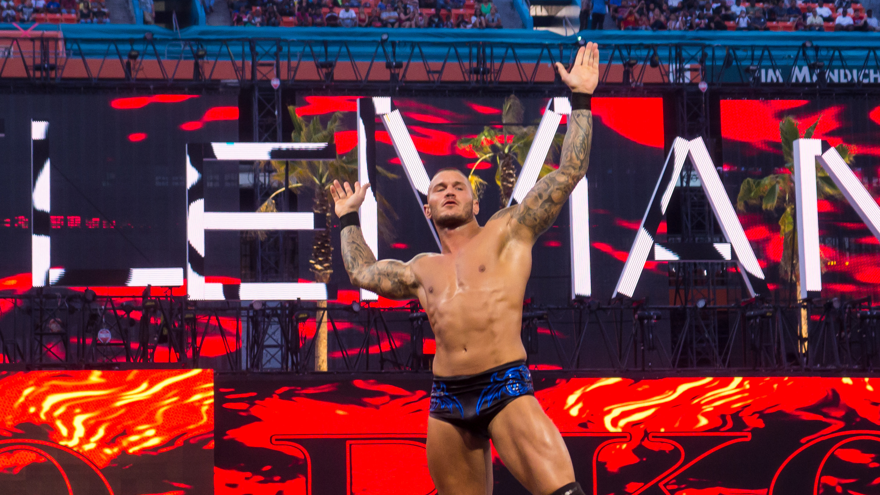 Randy Orton at Wrestlemania XXVIII